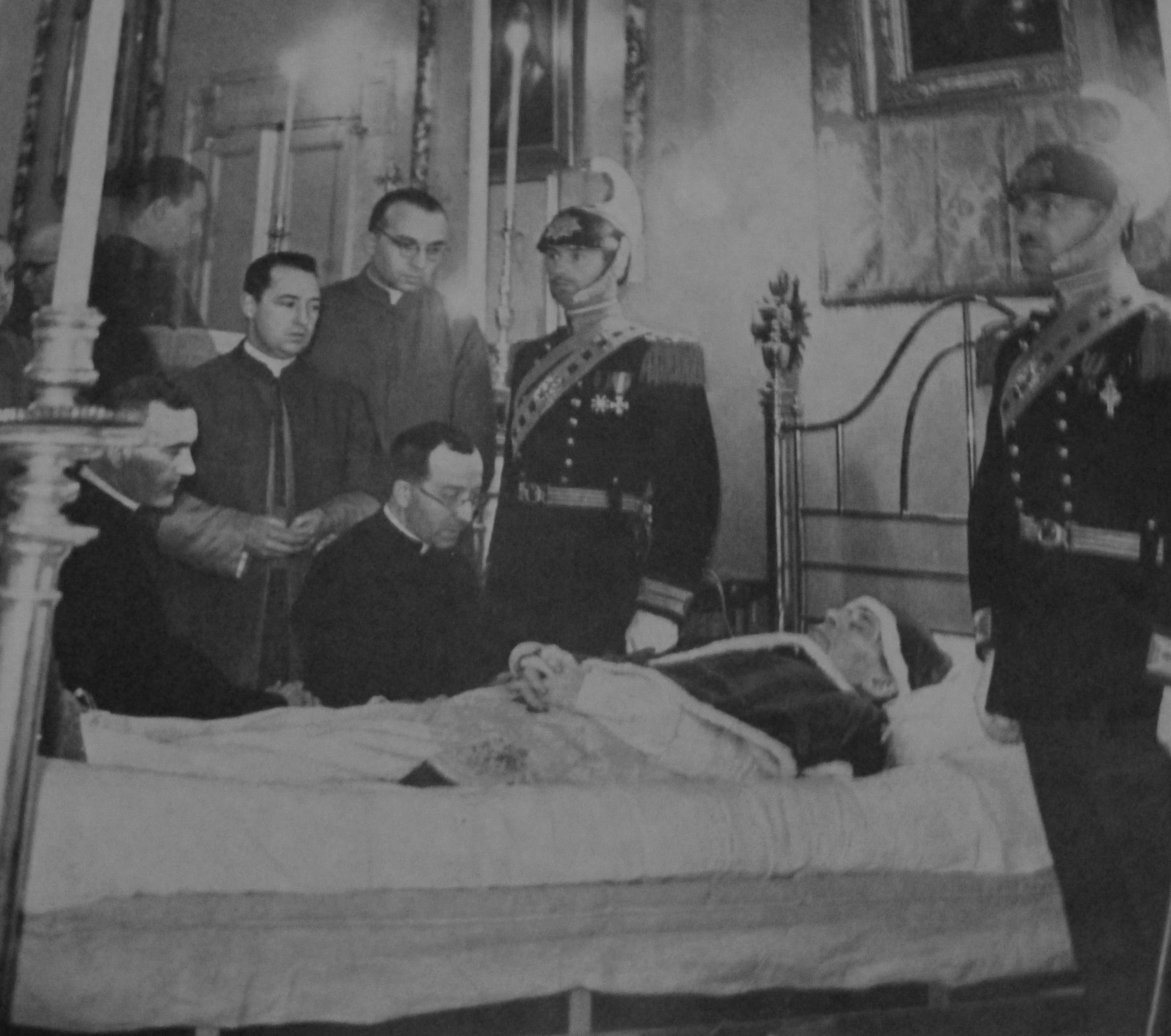 Pope Pius XI at his deathbed.